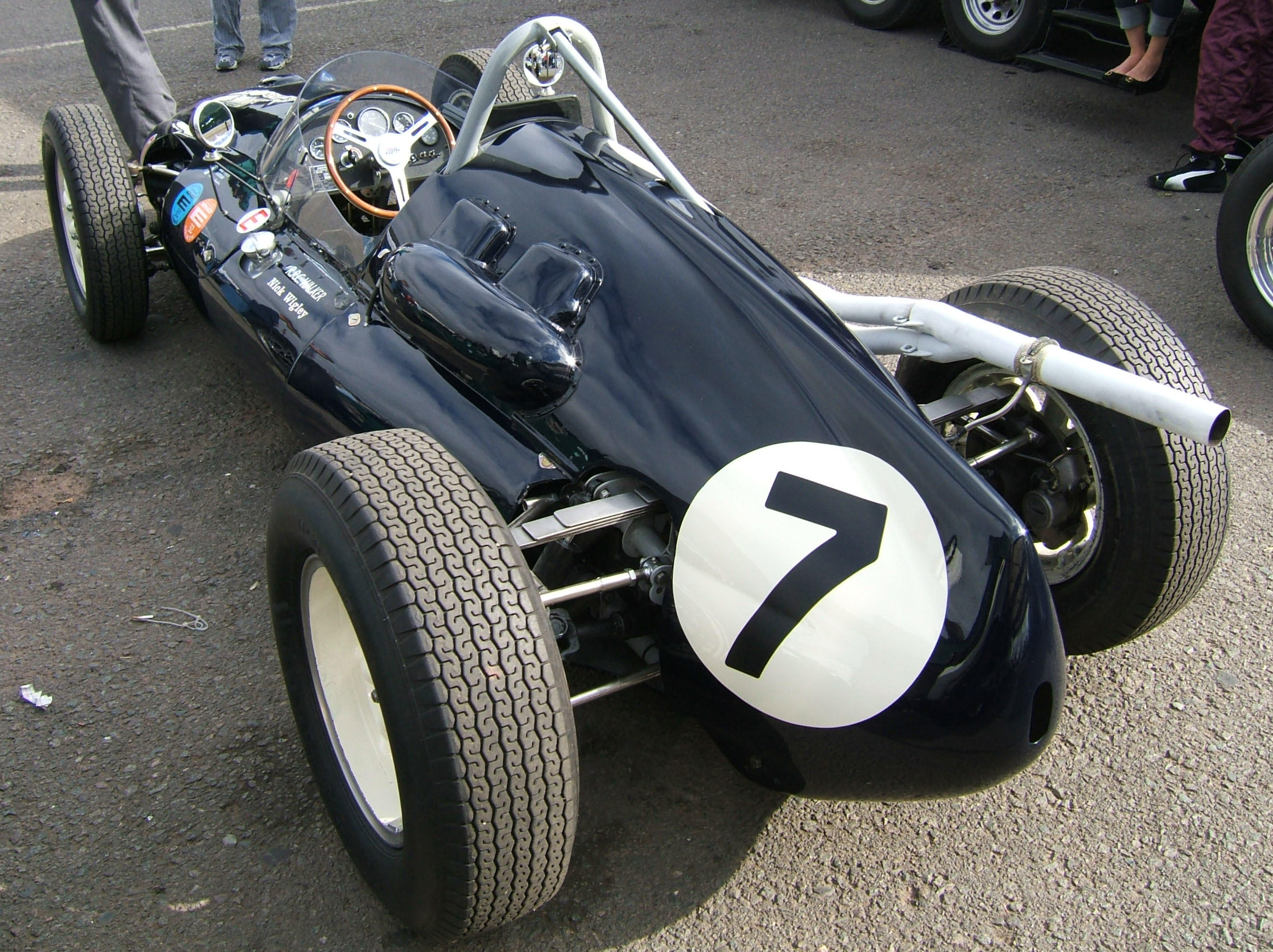 An ex-Rob Walker Racing Cooper T51 Formula One car waits in the paddock of the VSCC SeeRed race meeting, Donington Park, September 2007.